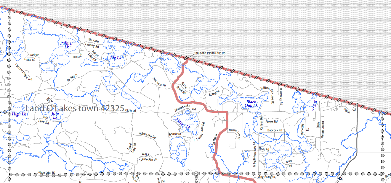 2010 Census Reference Map for the Town of Land O' Lakes, Vilas County, WI. Cropped from Vilas County (PDF)